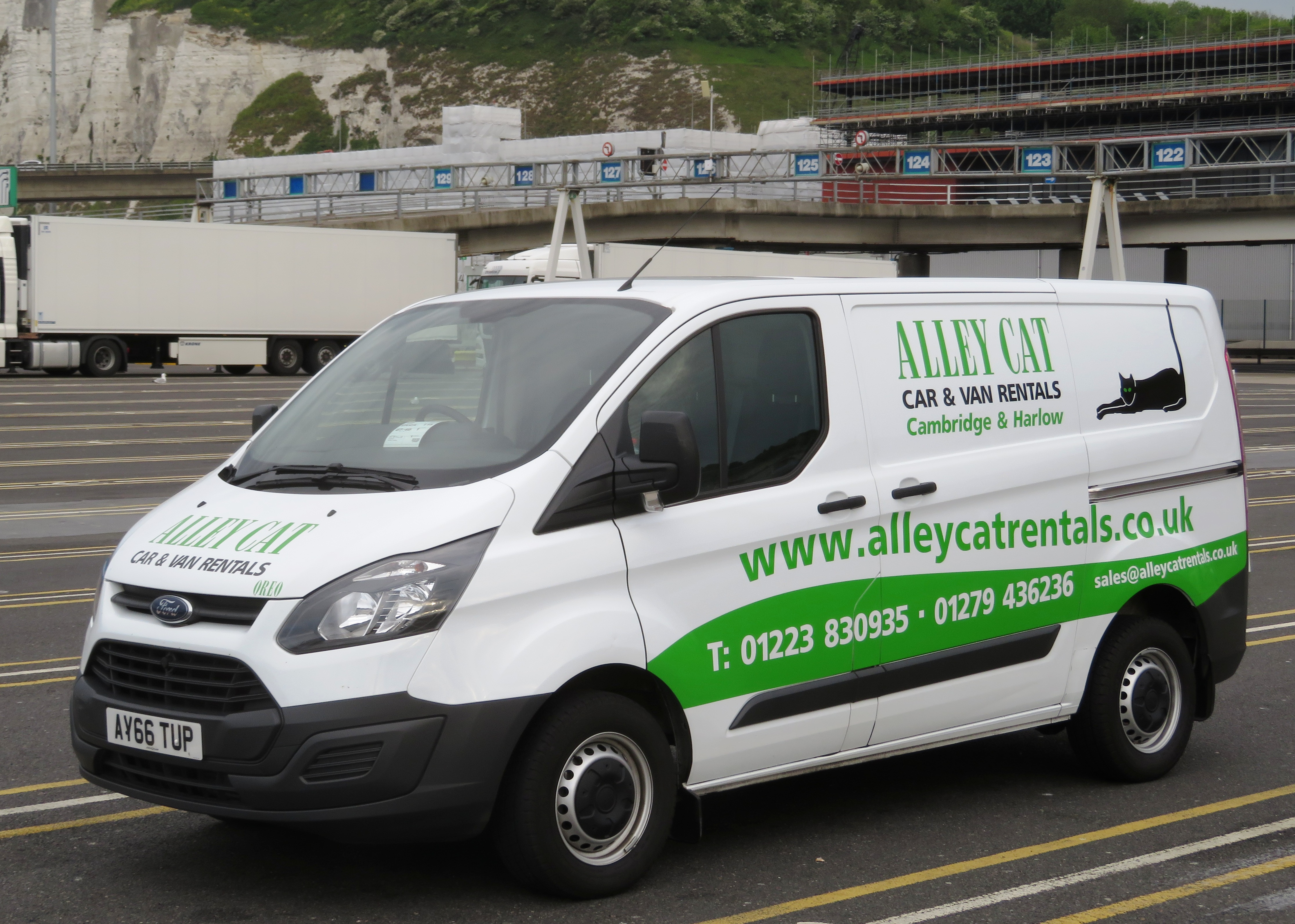 Ford Transit Custom (2016)